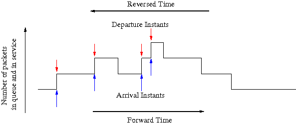 A demonstration of Burke's theorem in queuing theory.